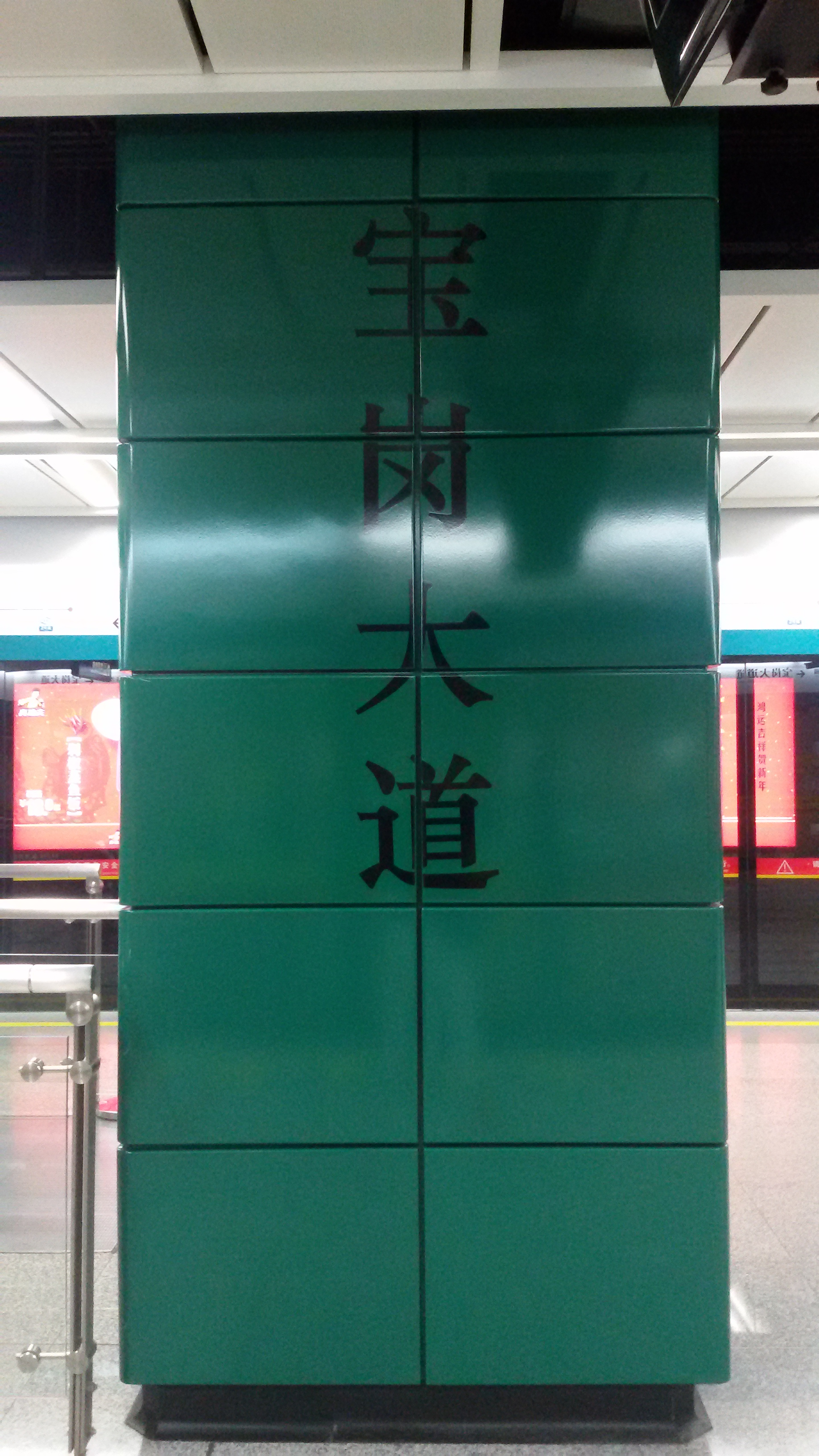 WORD on PILLAR for Baogangdadao Station in Guangzhou Metro